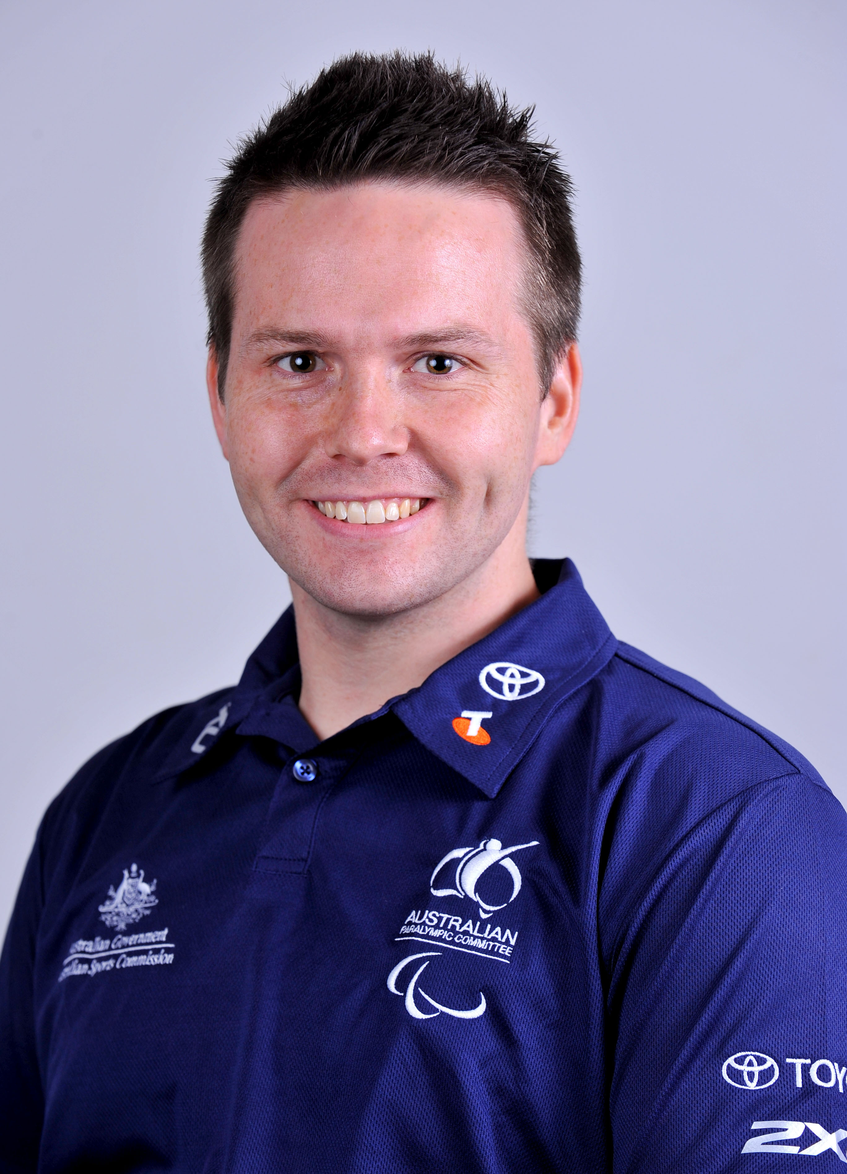 Portrait of Australian wheelchair basketballer Jeremy Doyle